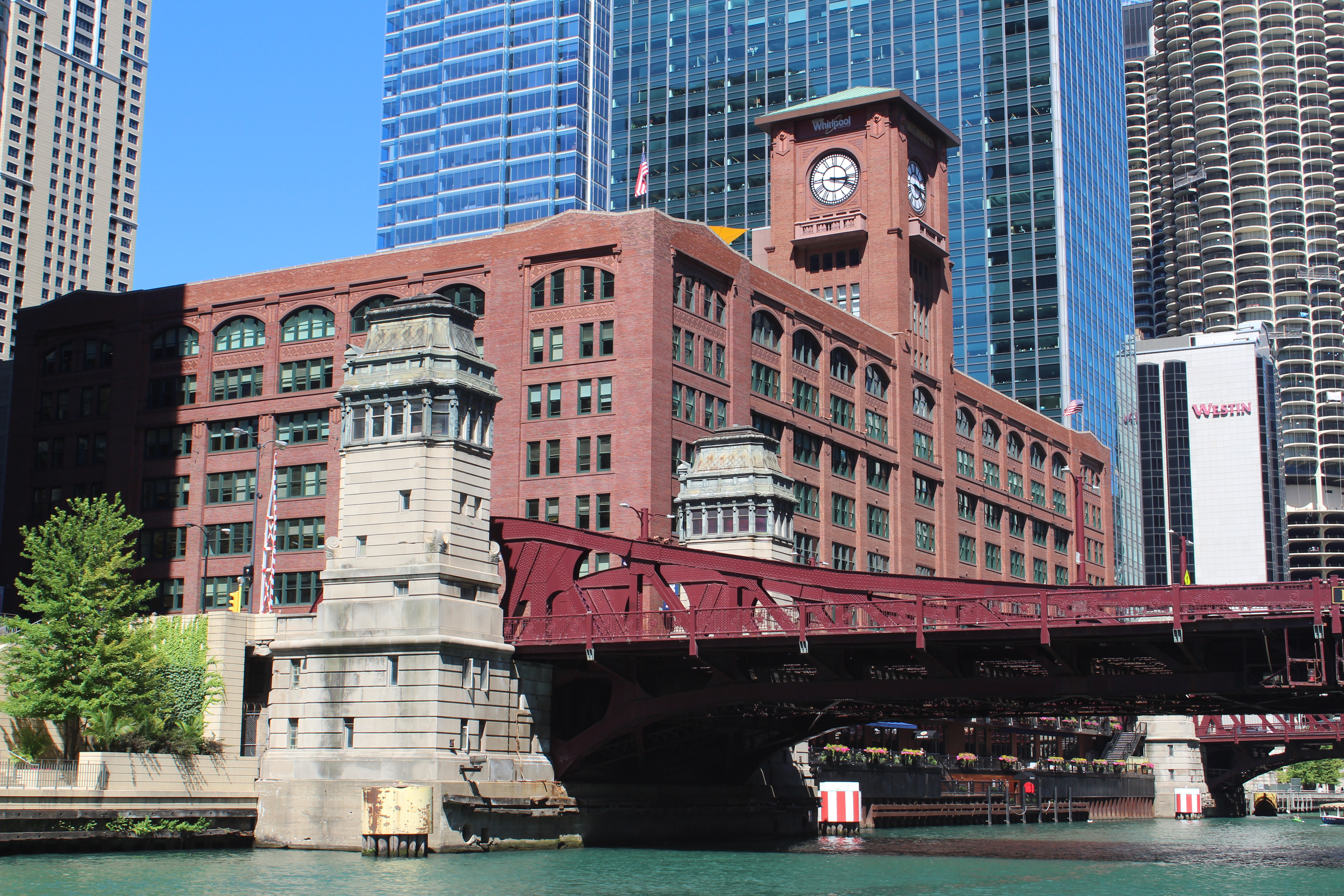 The building as seen in July 2018